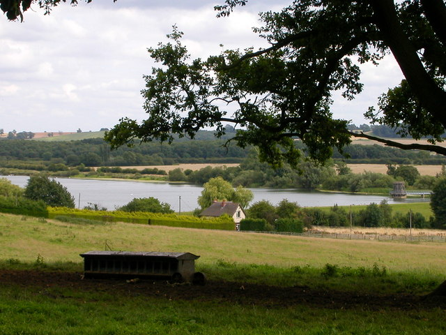 Stanford Reservoir The south west corner of the reservoir.